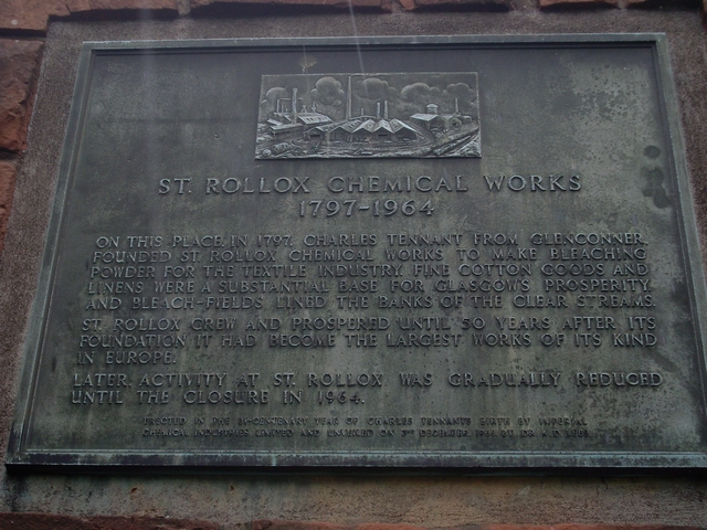 Plaque on site of former St Rollox Chemical Works The factory stood here for over 150 years, in the area which once also bore the name St. Rollox.